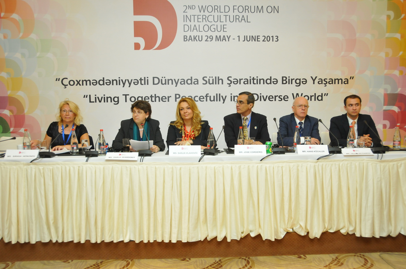 Session of 2nd World Forum on Intercultural Dialogue (2013)